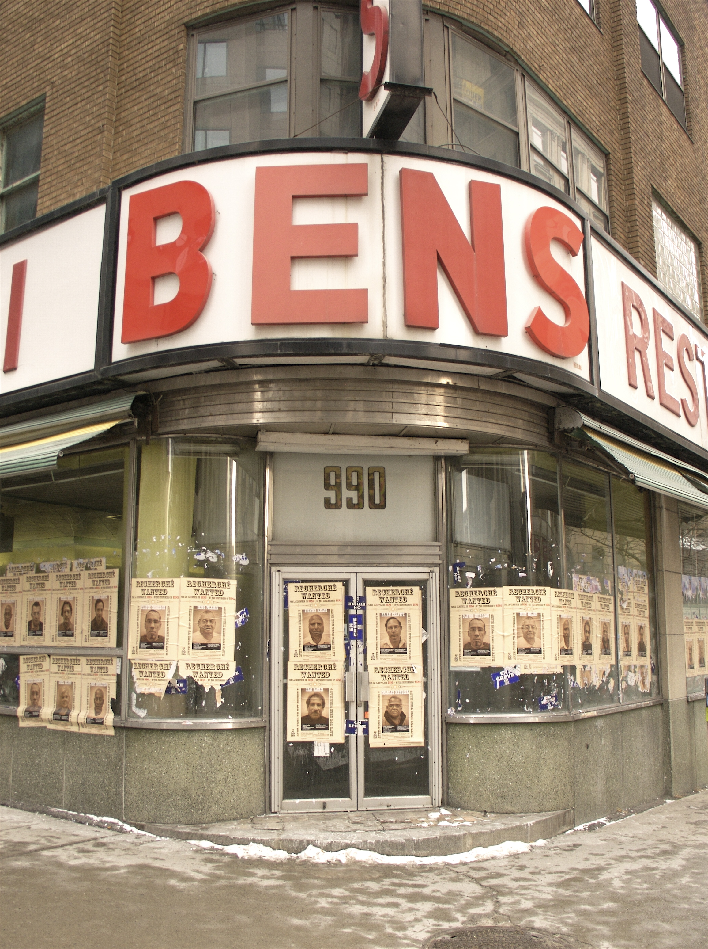 BENS, a classic Streamlined Moderne restaurant in Montreal